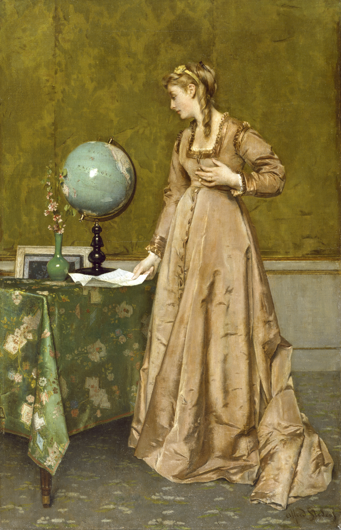 Stevens depicted domestic interiors, in which he meticulously recorded the latest fashions in dress and furnishings. Here, a young woman, who has apparently just received news from a loved one far away, clutches at her heart.